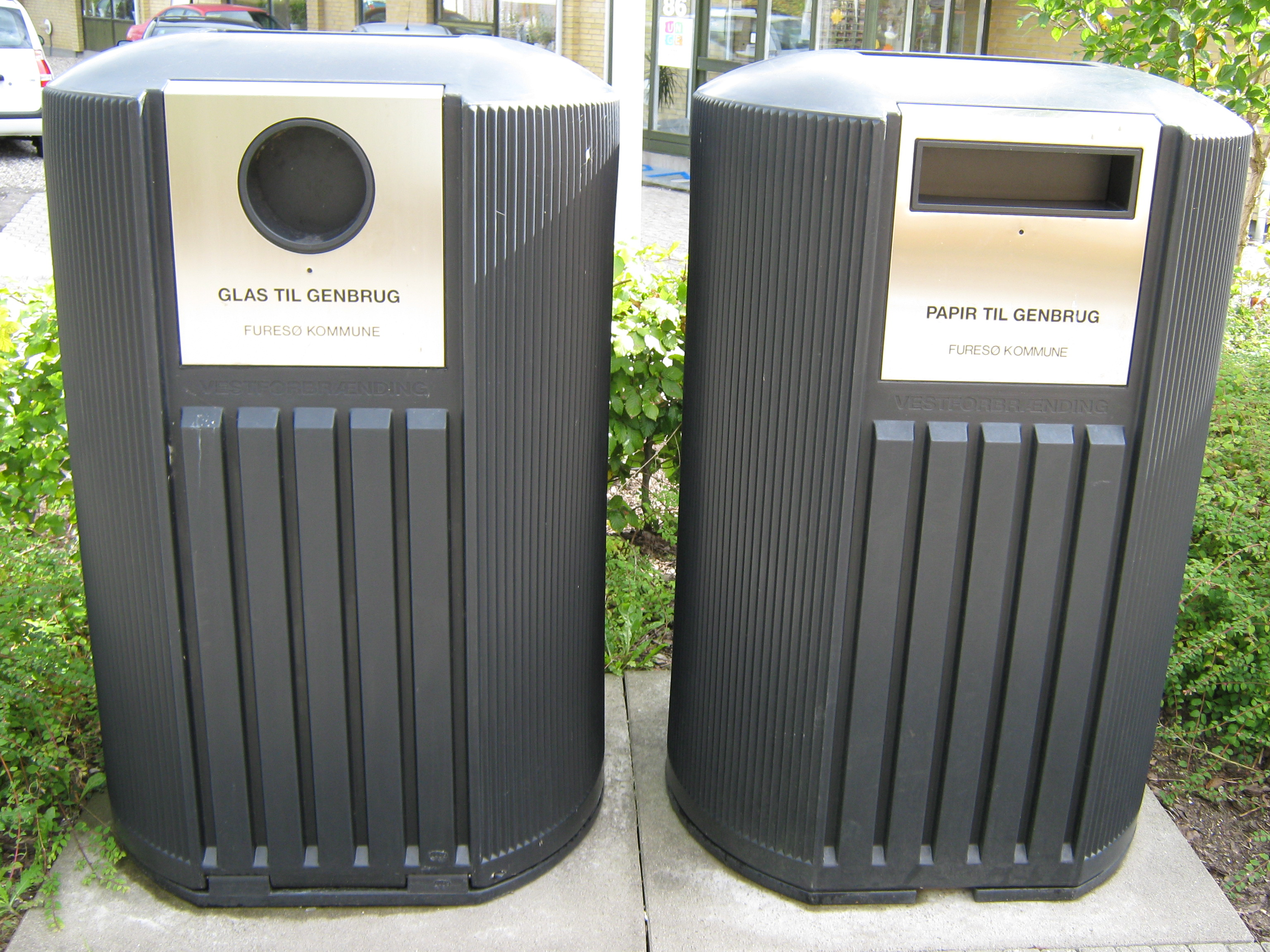 Glass and paper contaniers placed in Værløse, Denmark.